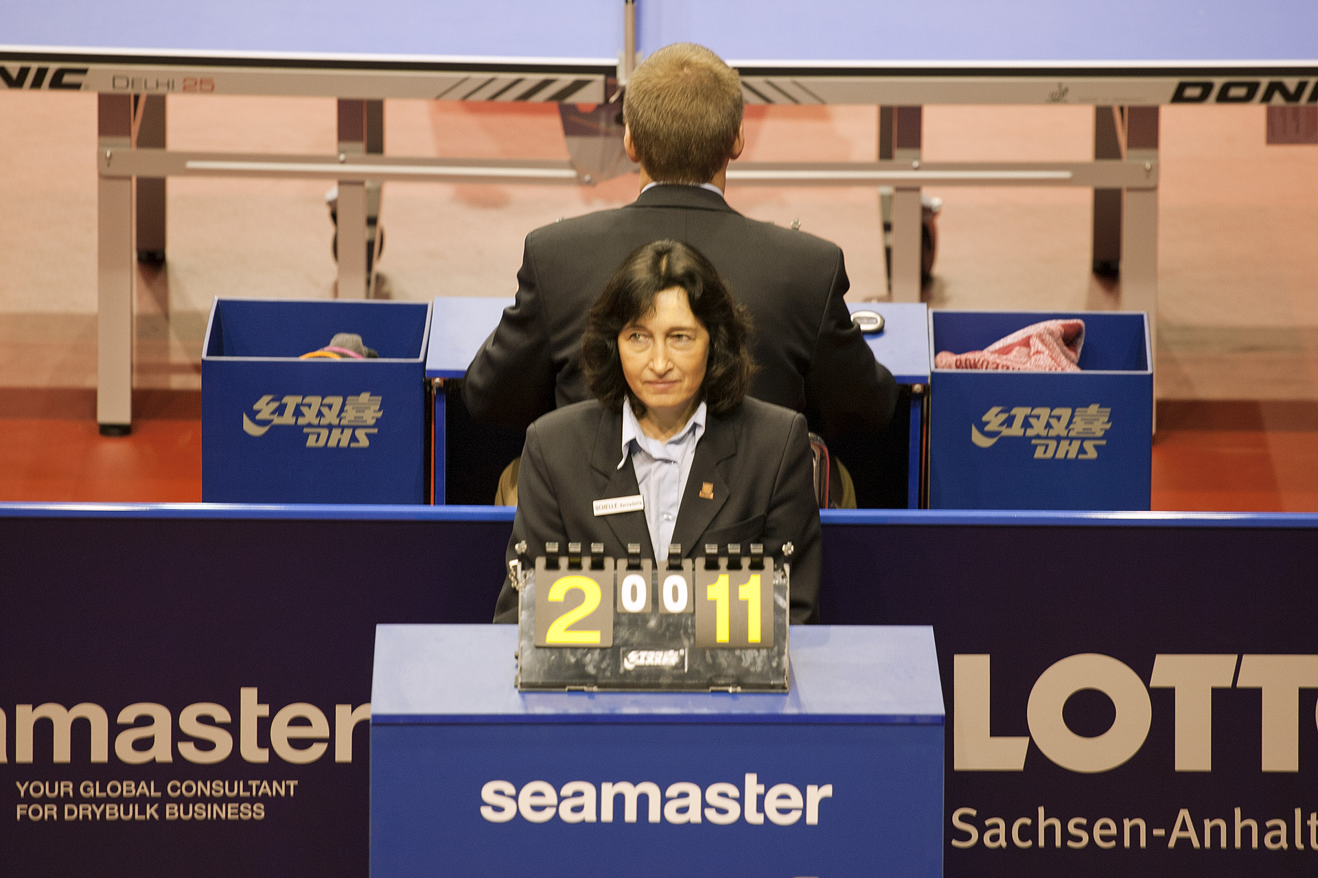 ITTF World Tour 2017 German Open, Magdeburg, Germany, 7 Nov 2017 - 12 Nov 2017